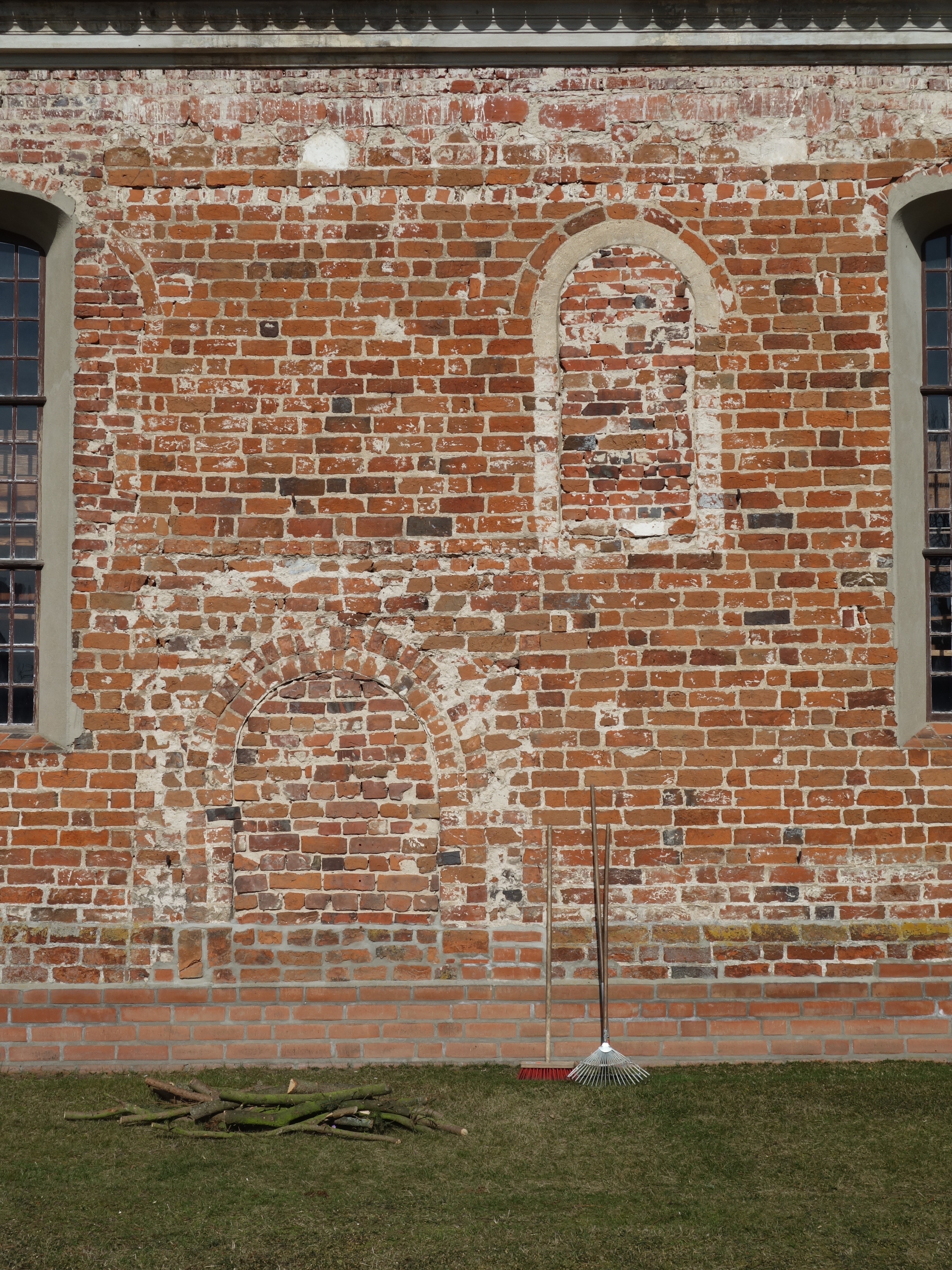 Blocked portal and blocked windows of village church in Zollchow, Milower Land municipality, Havelland district, Brandenburg state, Germany.